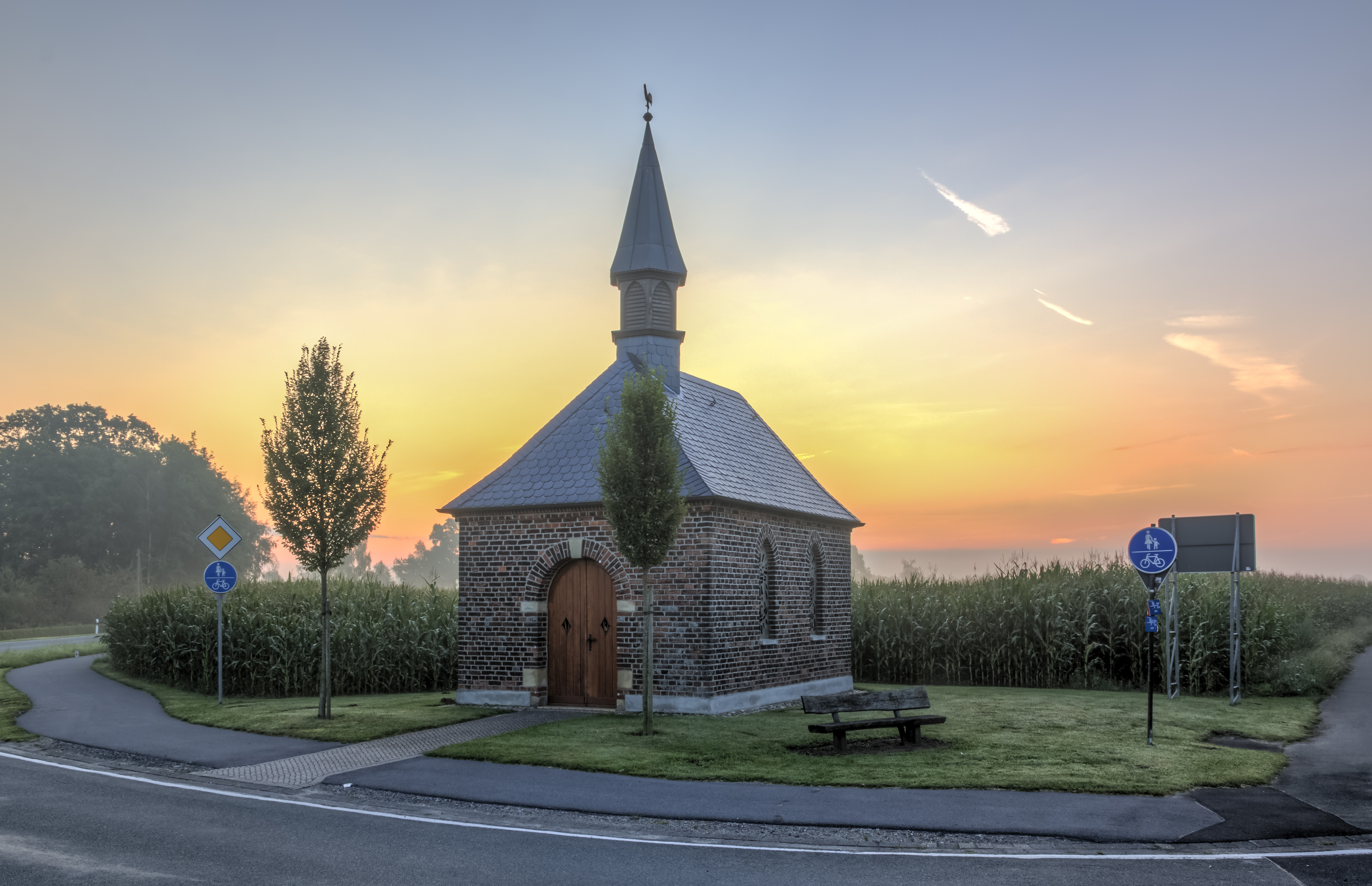 Saint John of Nepomuk chapel, Hiddingsel, Dülmen, North Rhine-Westphalia, Germany This image shows a heritage building in Germany, located in the North Rhine-Westphalian city Dülmen (no. 66).